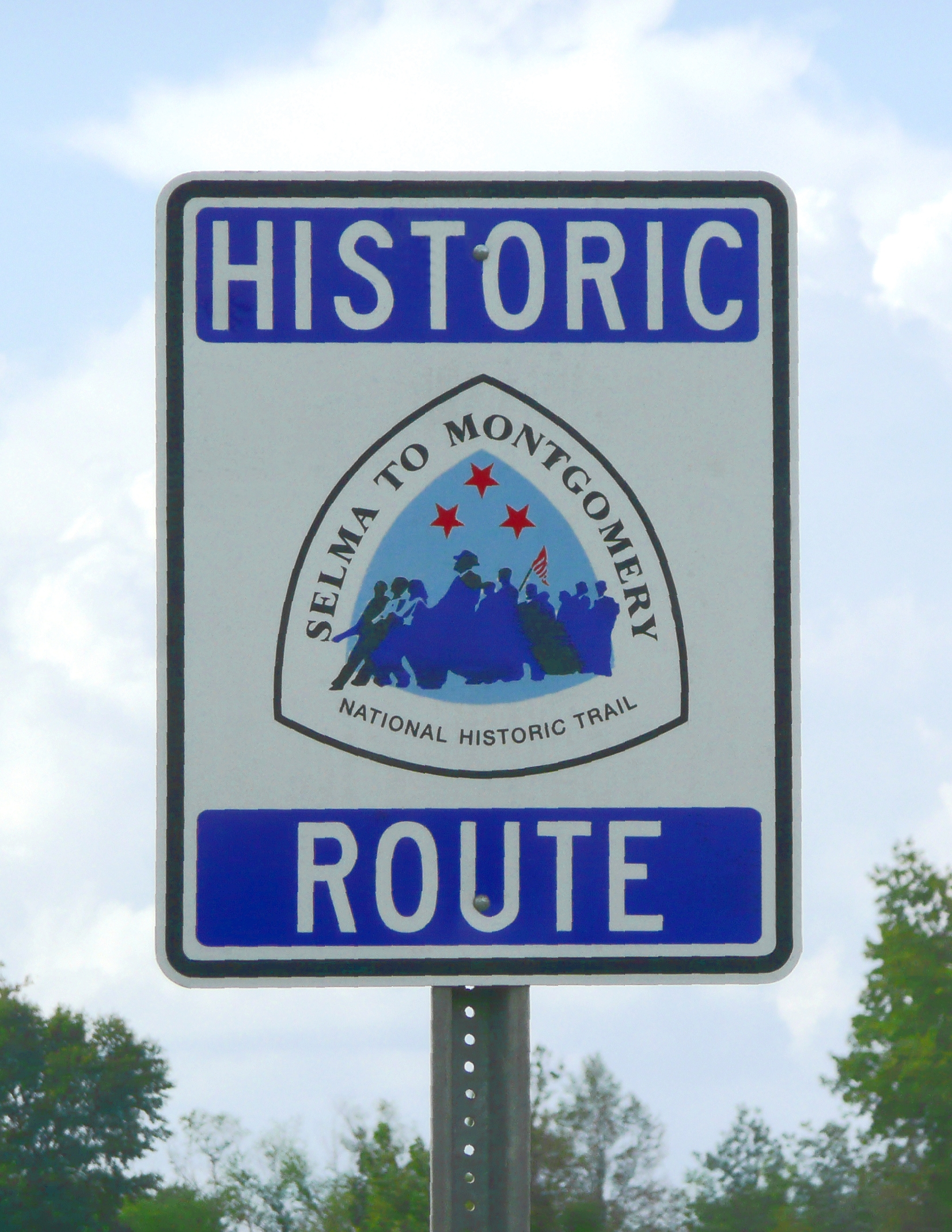 Selma to Montgomery marches' road sign